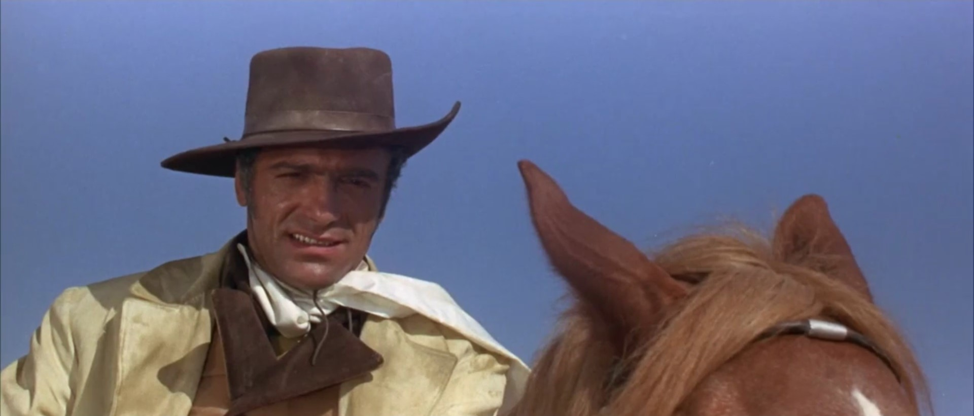 Luigi Pistilli as Walcott in Death Ridess a Horse